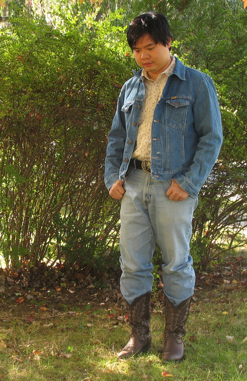 A man wearing a denim jacket, a Banana Republic Western shirt, a belt with a lion buckle (from Guess? at Macy's), Levi's denim jeans and Laredo deerskin boots from Gilly Jeans.